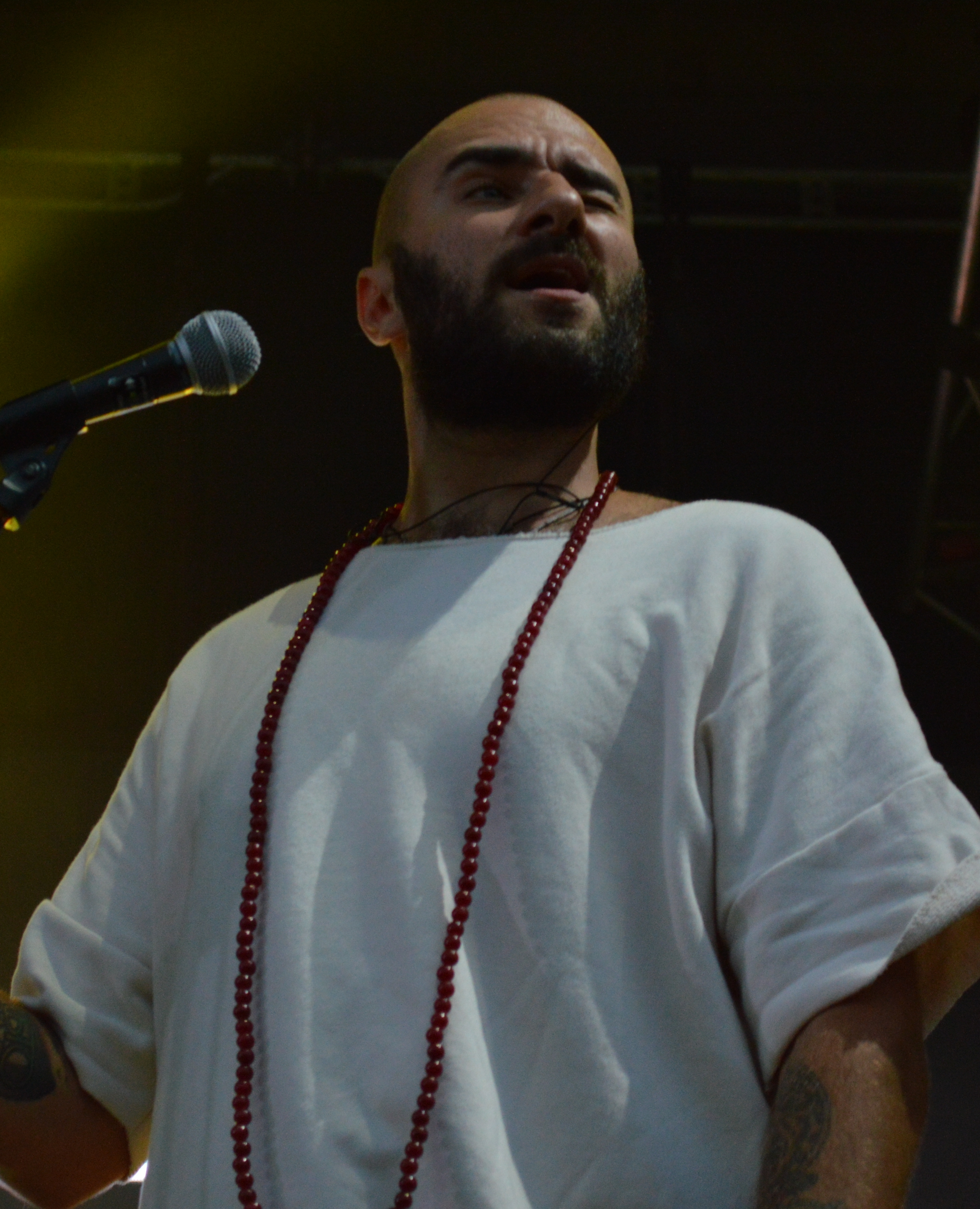 Ukrainian singer Oleksandr Slobodianyk, the frontman of the band Salto Nazad at the 2018 MRPL City Festival.